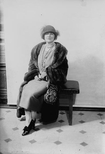 Mary Garden (1874 - 1967), Scottish soprano